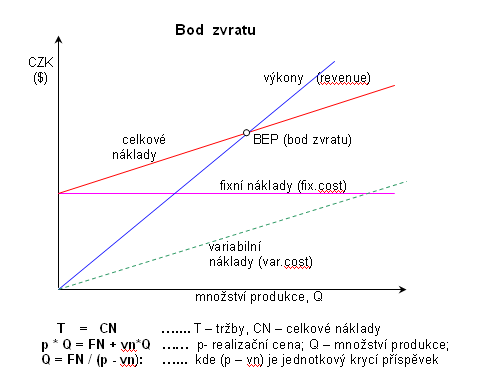 BEP, break-even point